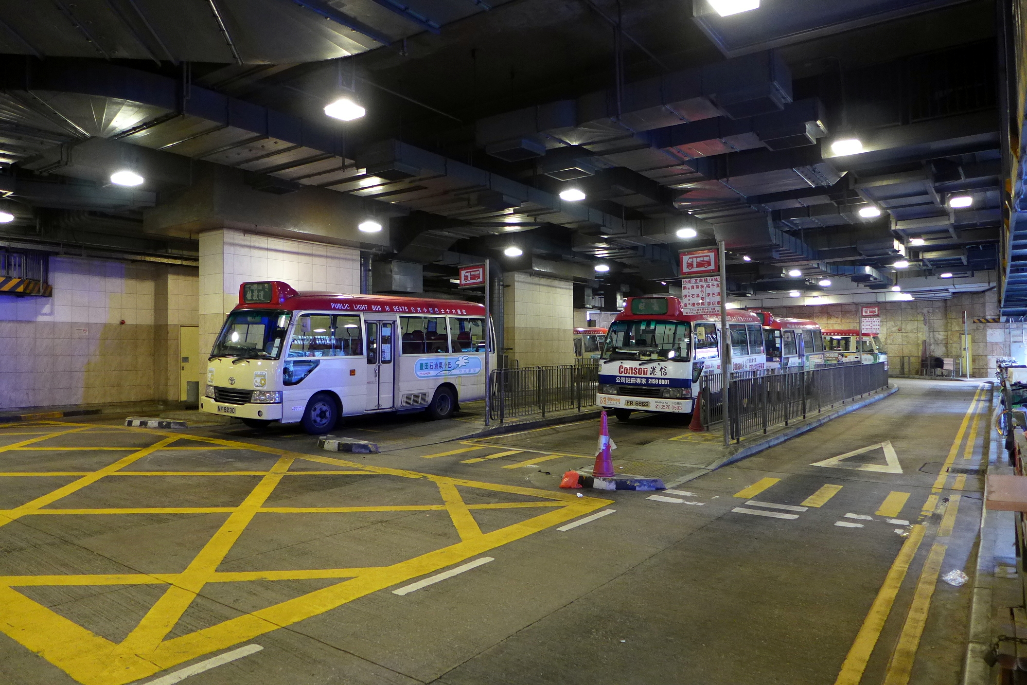 Langham Place Minibus Station